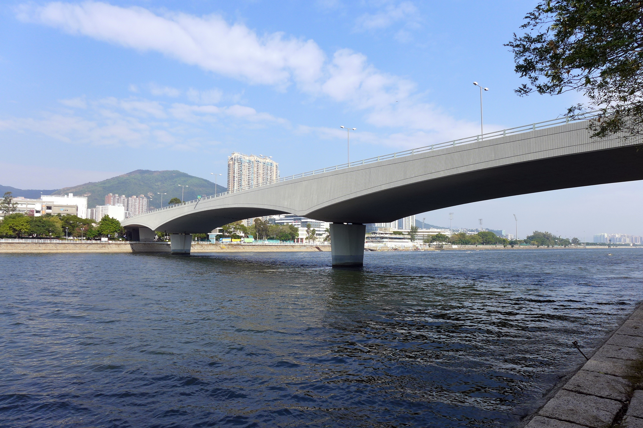 Dragon Bridge in Shatin Shing Mun River